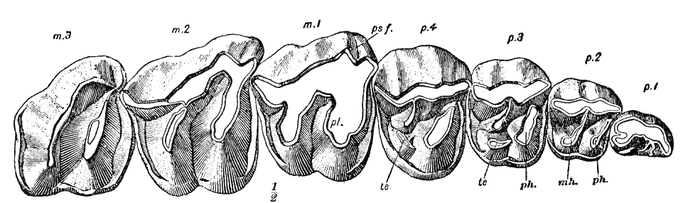 Fig. 36.—Molar teeth of Aceratherium platycephalum. × ½. m.1-m.3., Molars; mh, metaloph; p.1-p.4, premolars; ph, protoloph; ps.f, parastyle fossa; te, tetartocone. (After Osborn.) This species is now recombined as Amphicaenopus platycephalus.[1]